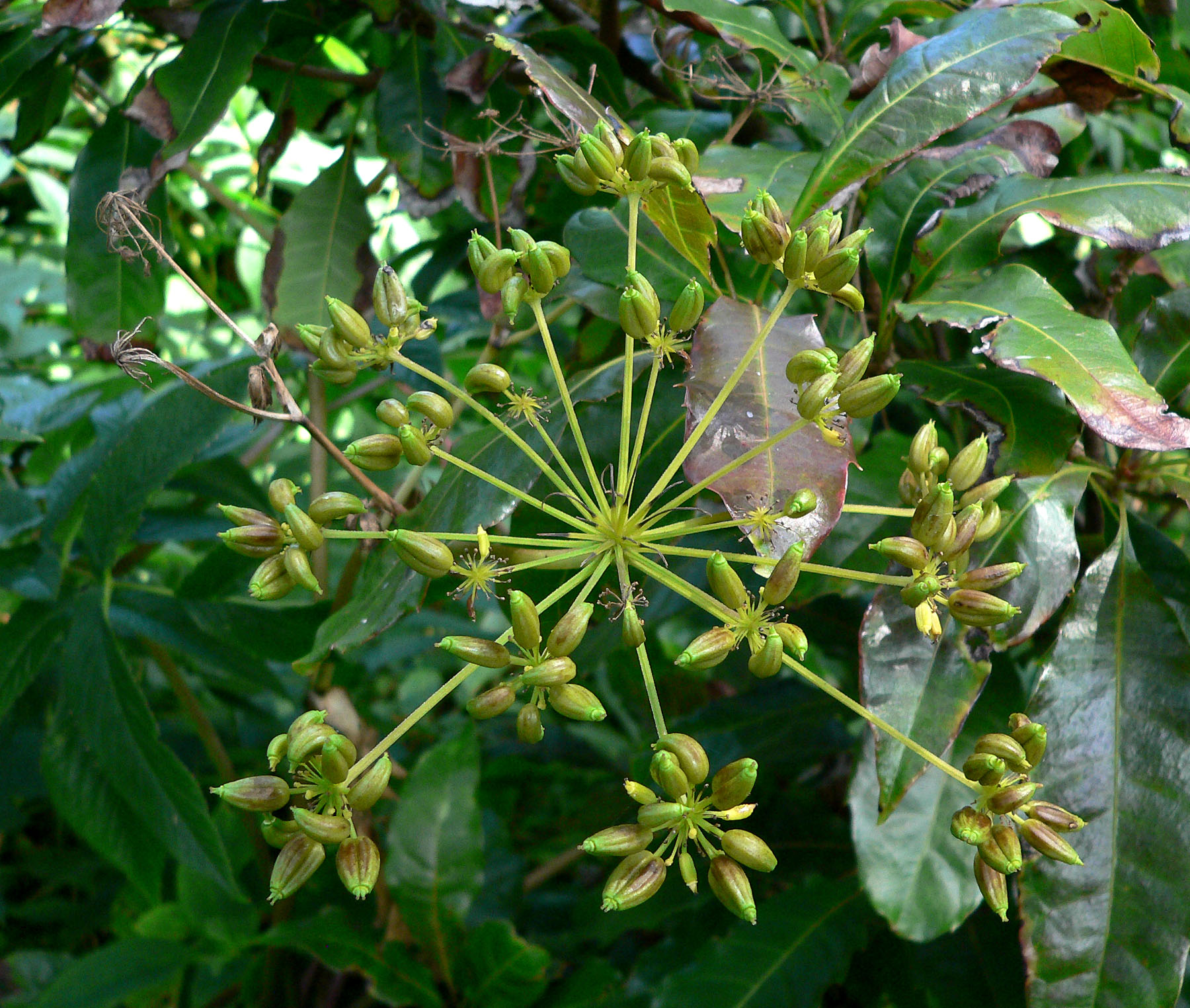 Meliosma matudae at the San Francisco Botanical Garden